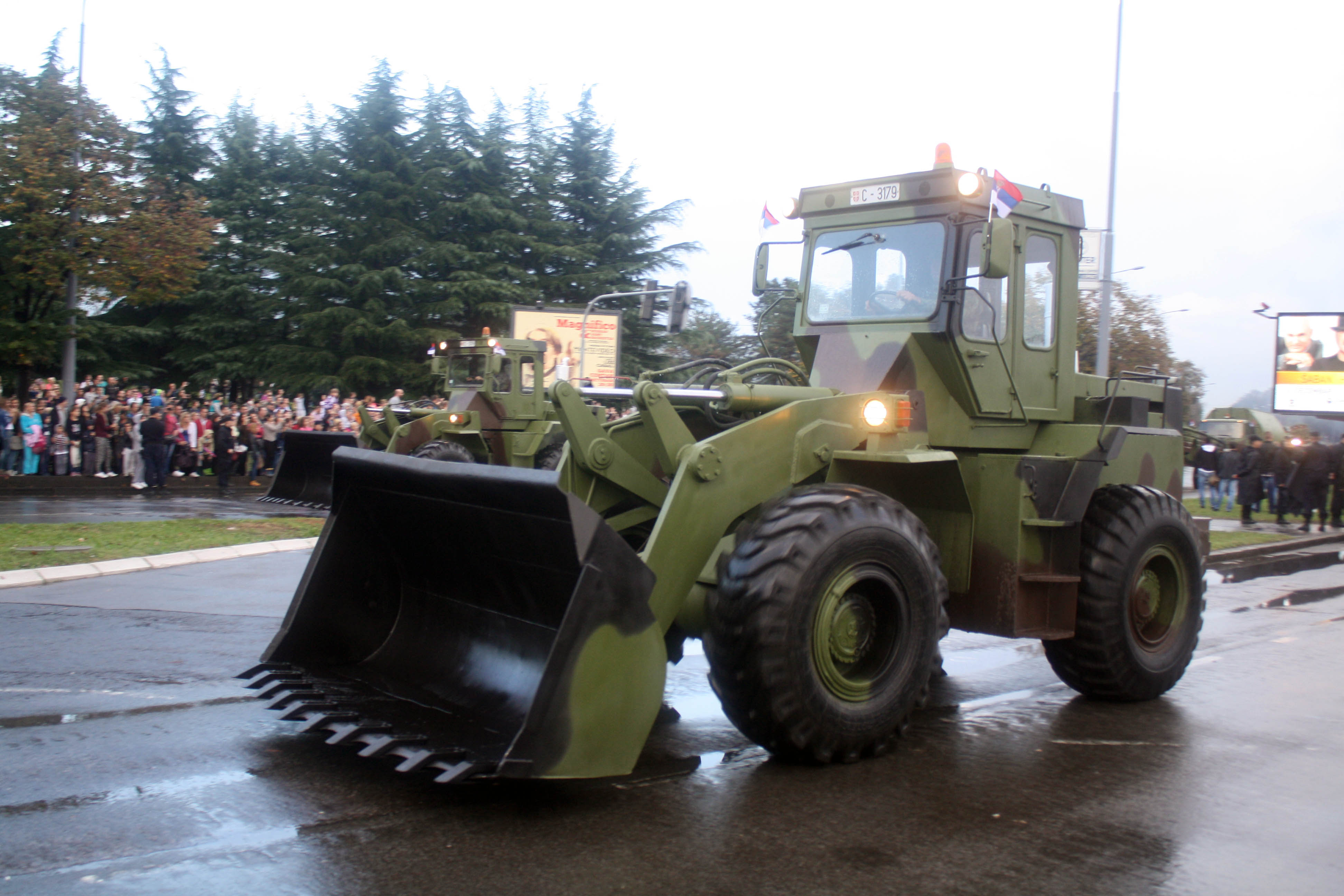 Serbian Army engineer units ULT-160CK wheeled front loader during the military parade "March of the Victorious" on the occasion of marking 100 years since the beginning of the Great War and 70 years since the liberation of the capital in the Second World War.